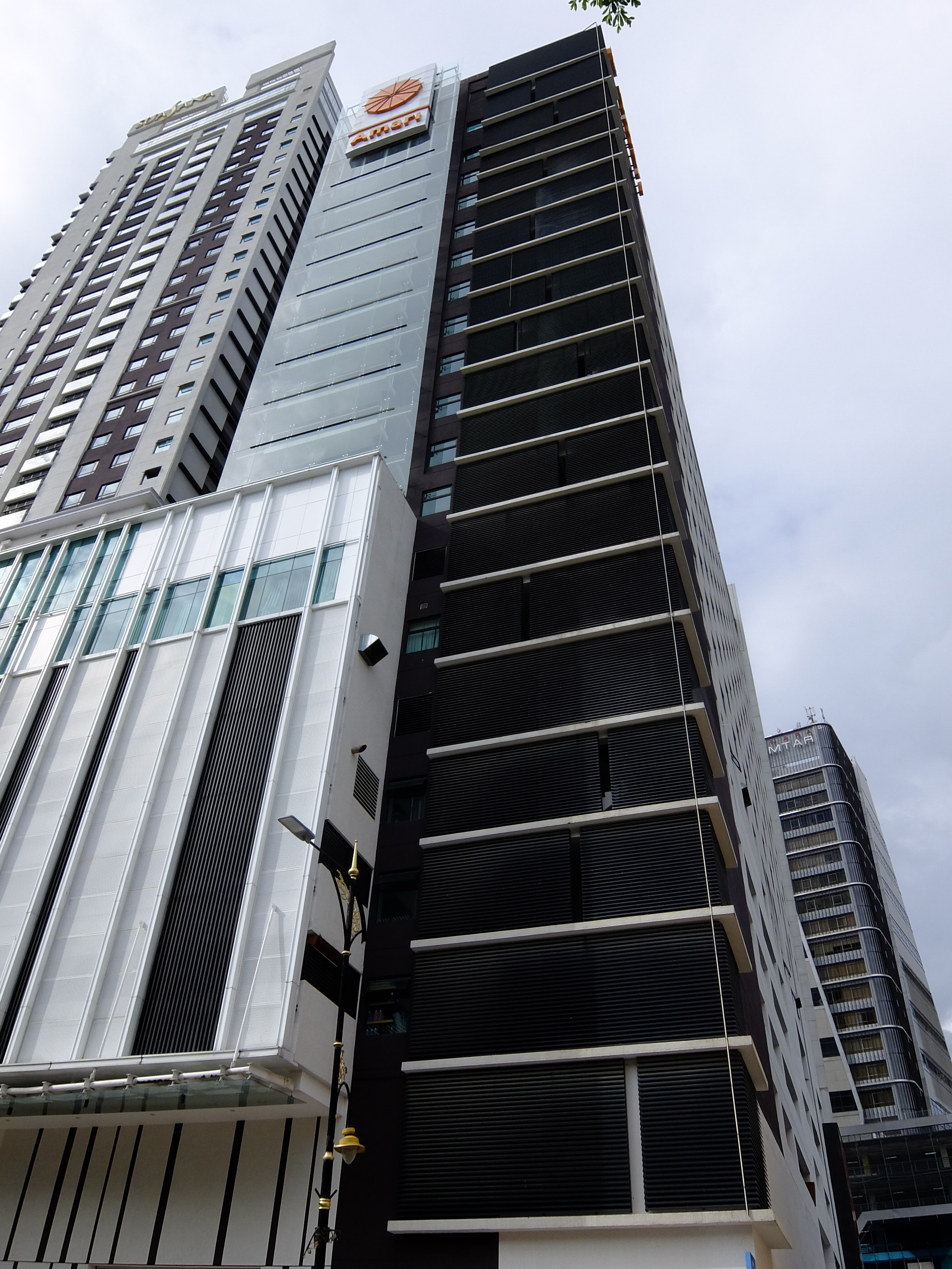 Amari Johor Bahru, Johor Bahru, Johor, Malaysia